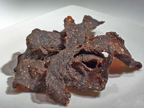 self made beef jerky made from solid strips of beef